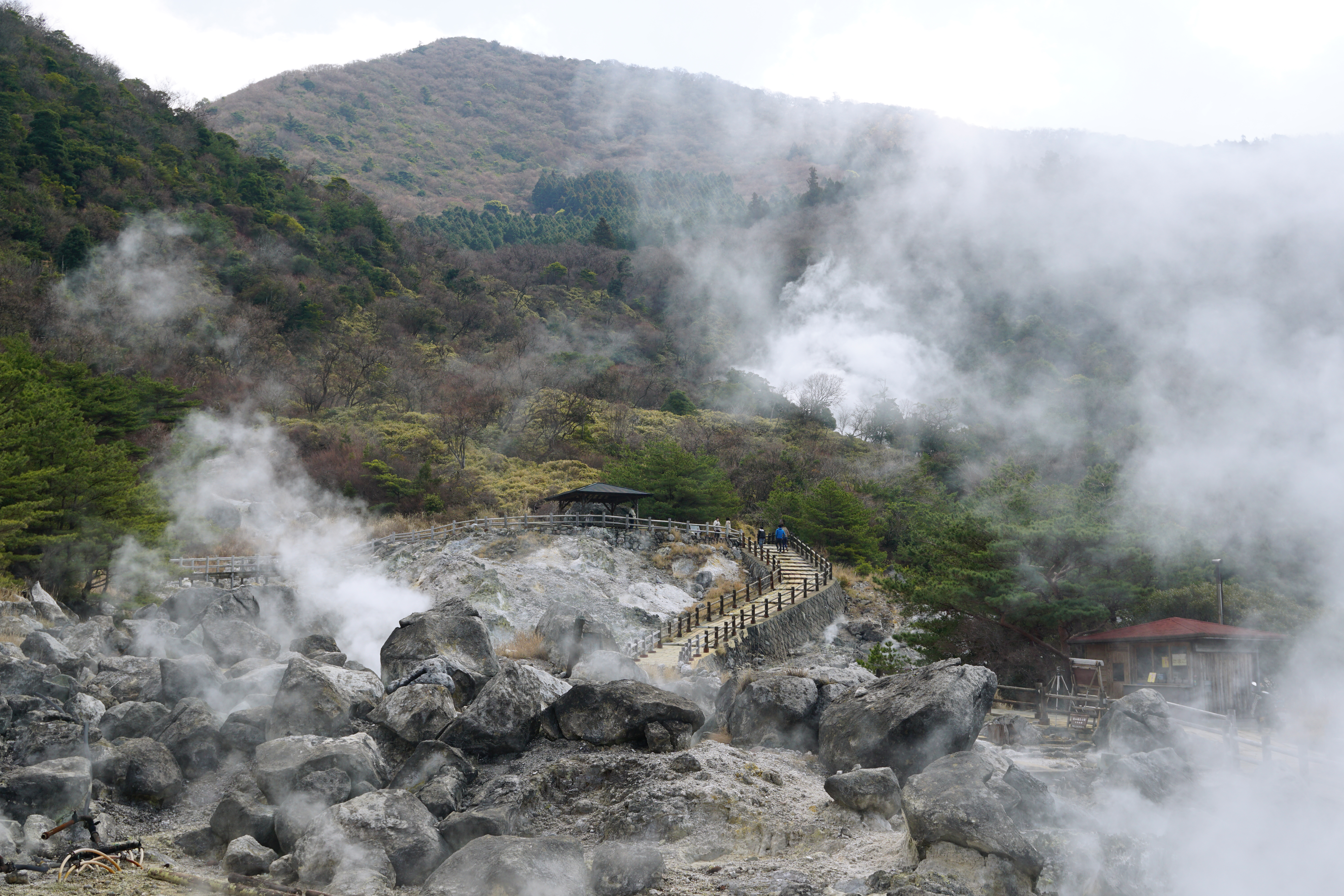 Jigoku of Unzen Onsen in Unzen City, Nagasaki prefecture, Japan.